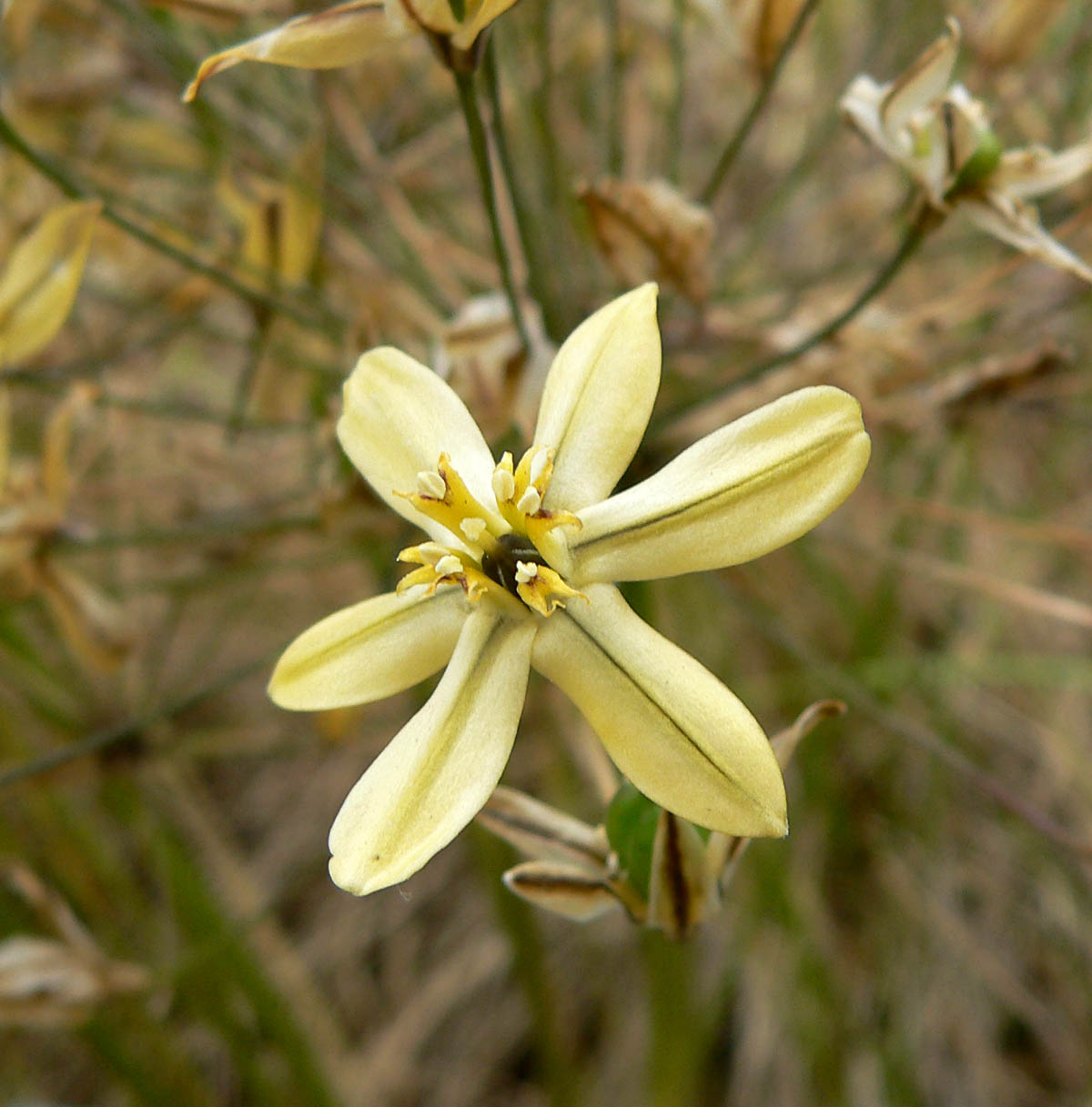 Photo of Triteleia ixioides ssp. scabra at the University of California Botanical Garden